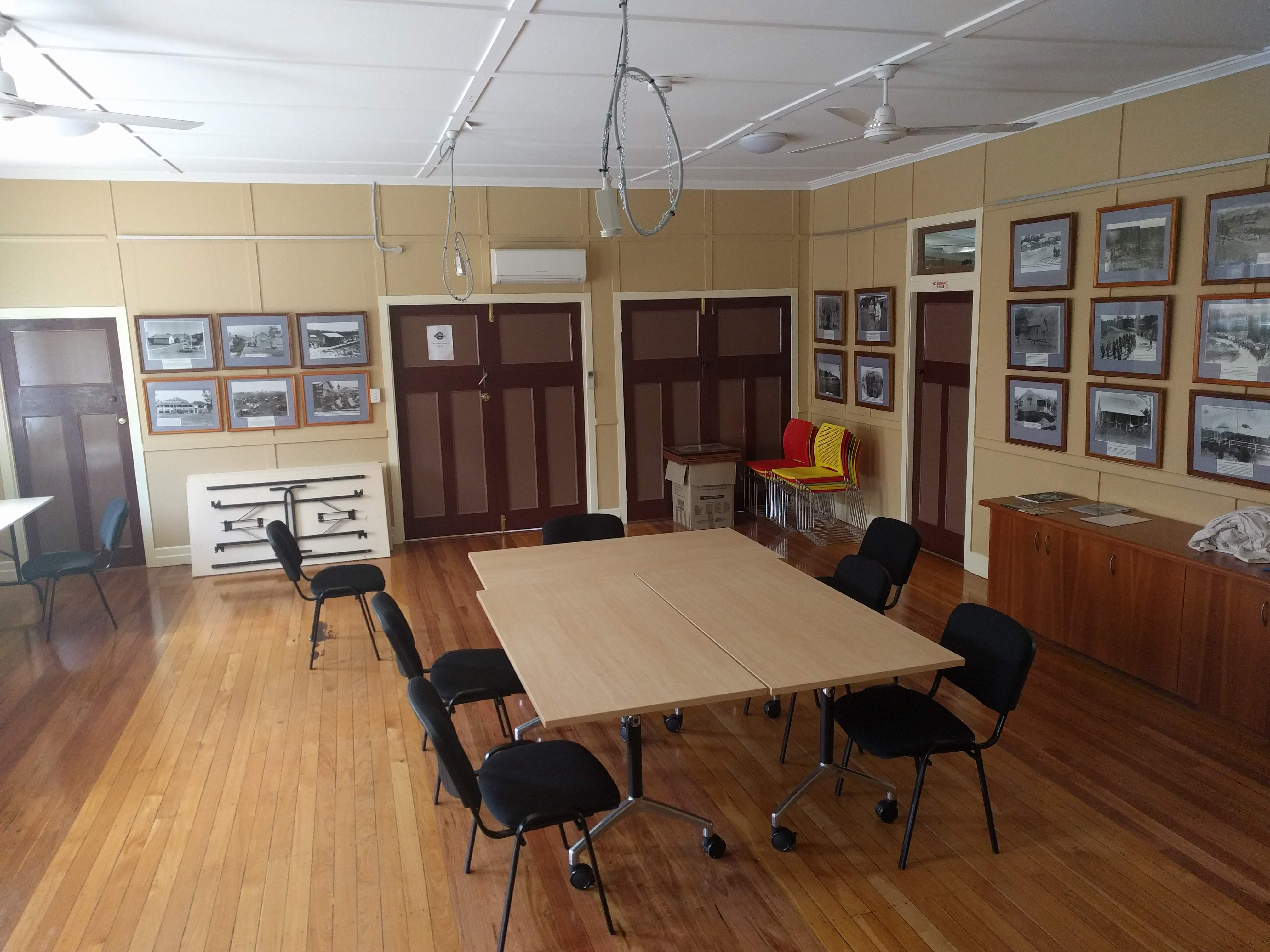 Activity space available for hire through Gold Coast Council.